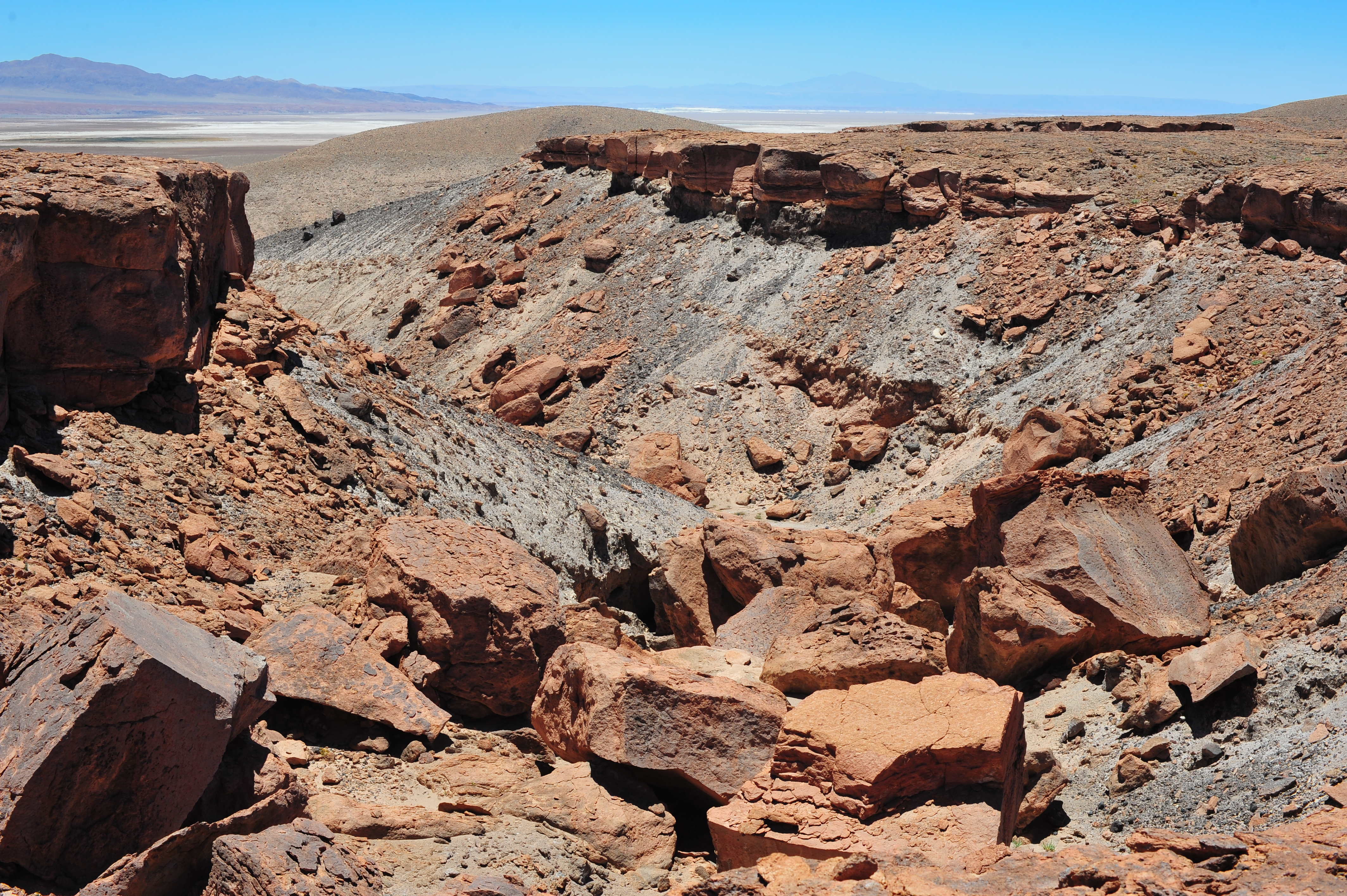 Near the south end of the Salar de Atacama, between the oases Tilomonte and Tilopozo, in the Tilocalar Hills (Lomas de Tilocálar), approx. 2450 m a.s.l. (120 m above the Salar). The top layer of hard rock has cracked allowing an erosion to create a channel in the landscape.